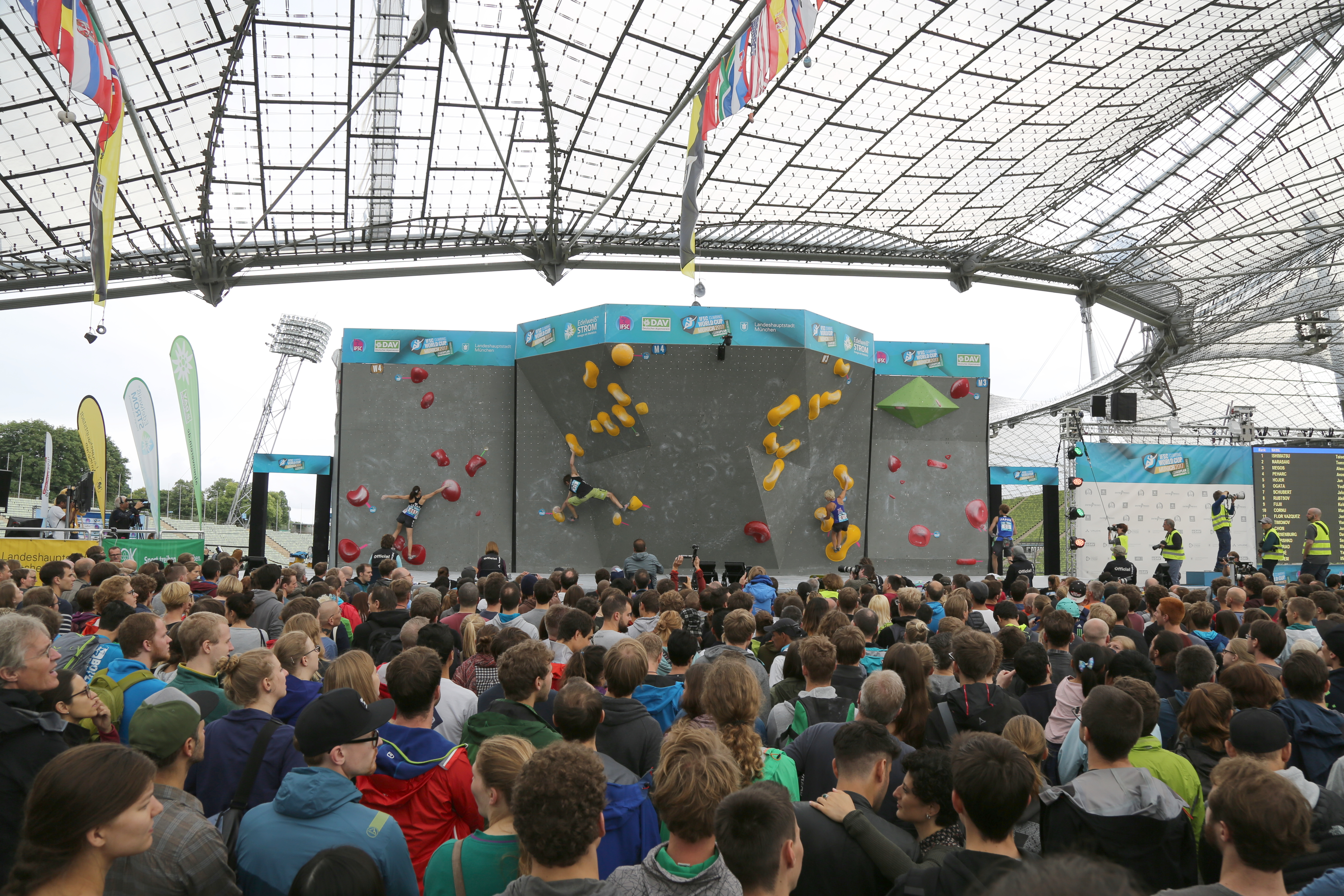 Boulder Worldcup 2017 in Munich, Germany